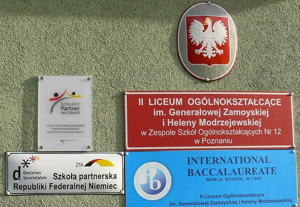 Poznan, entry to II Liceum.